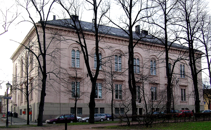 Gamle logen, Grev Wedels plass 2, Oslo. Built 1838-1844. Architect: Christian Malling.